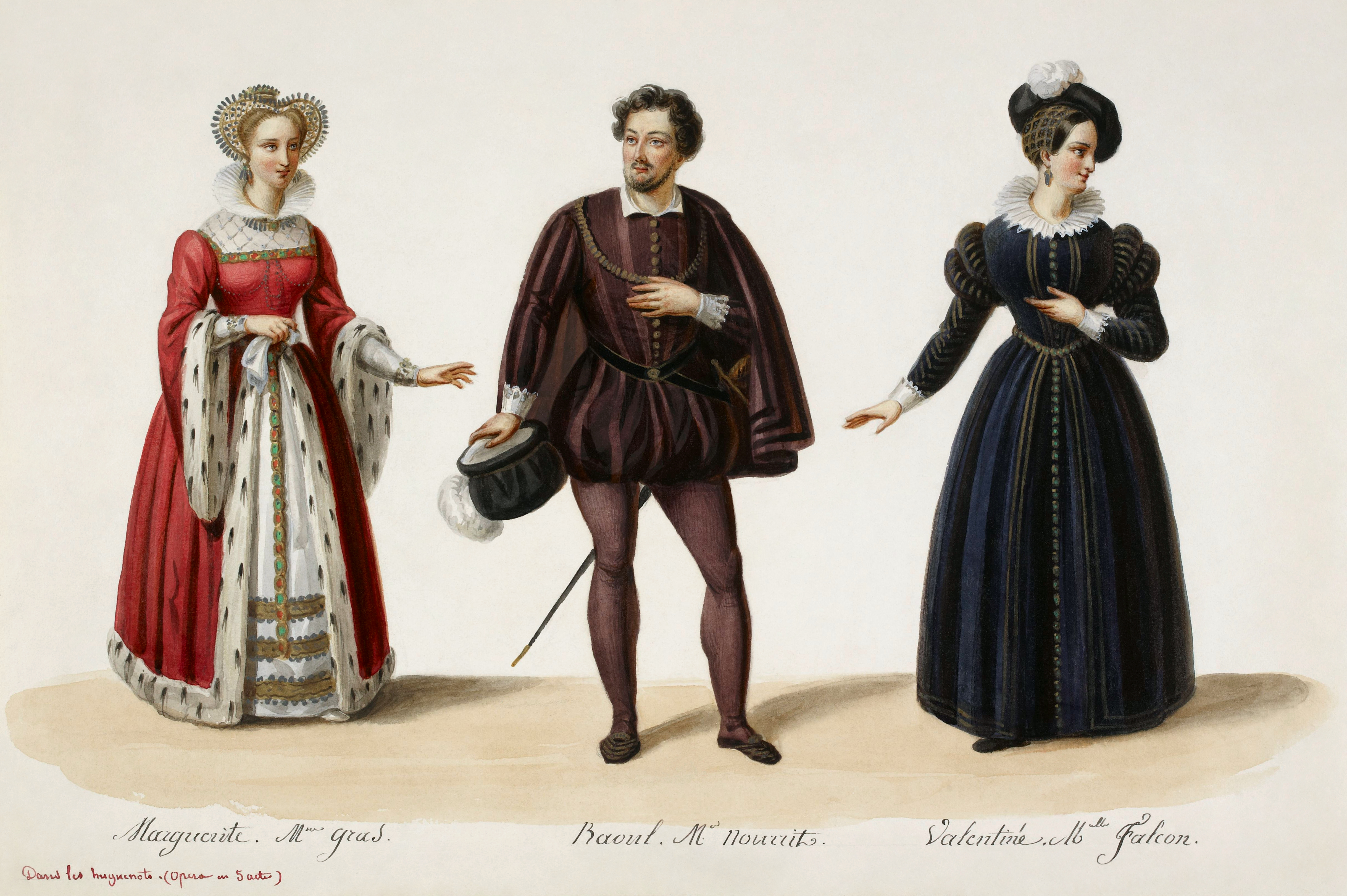 Costume designs for Giacomo Meyerbeer's Les Huguenots, No 2. Julie Dorus-Gras as Marguerite, Adolphe Nourrit as Raoul, and Cornélie Falcon as Valentine, for the Académie Royale de Musique-Le Peletier performance that opened 29 February 1836. Watercolour; probably 210 x 310 mm (Gallica lists ranges when multiple objects are in a set. The exact description is: "aquarelle ; H. 120-210 x L. 080-310 mm - of which I'm presuming the smaller numbers refers to the single drawing. The crop is minimal.)